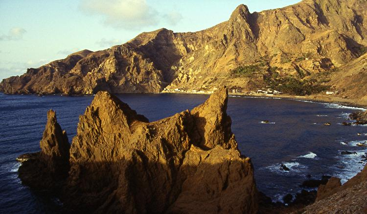 Bay of Faja and Faja de Agua village on Brava island - Cape Verde